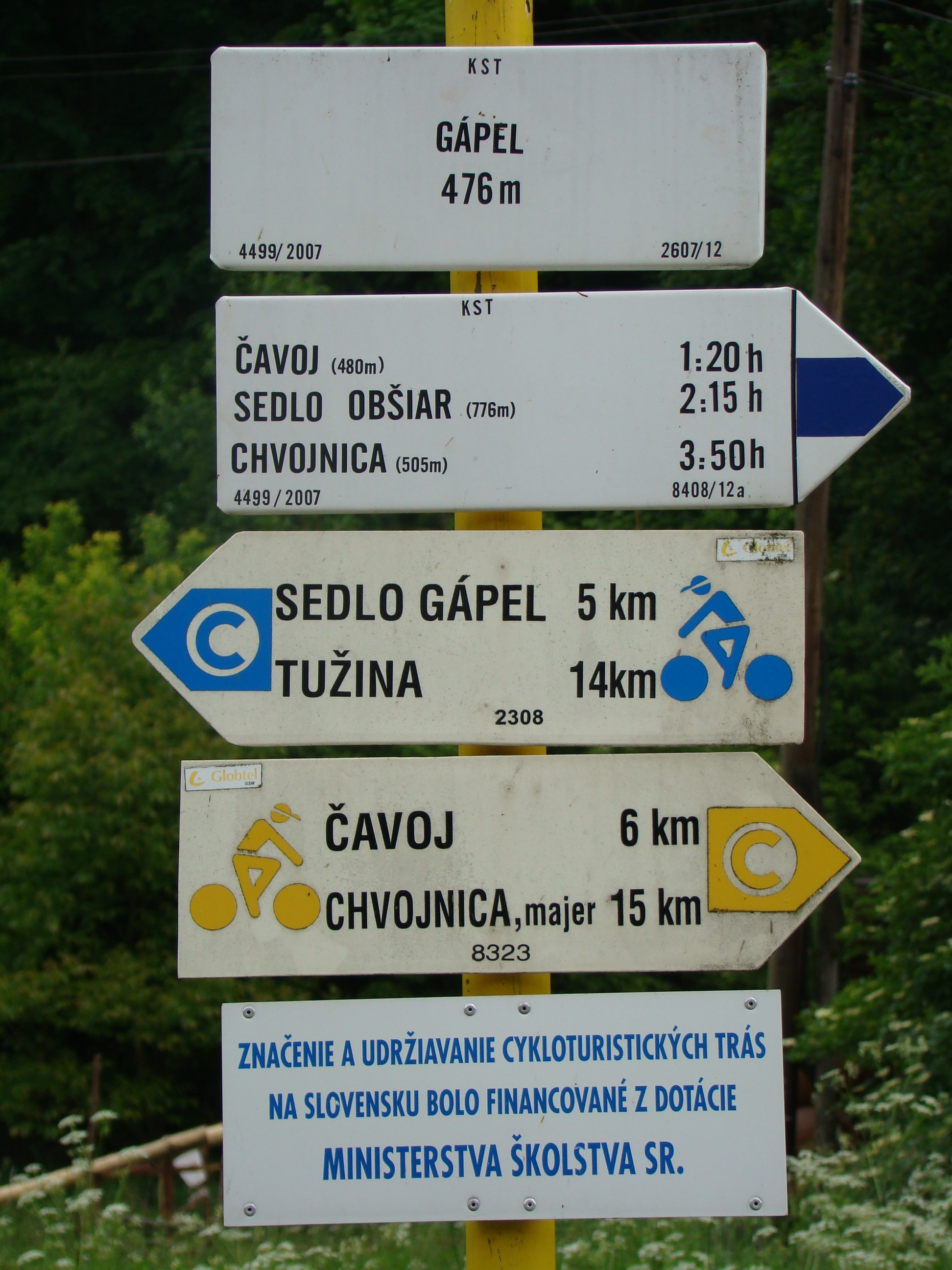 The signs showing further destinations close to Gapel